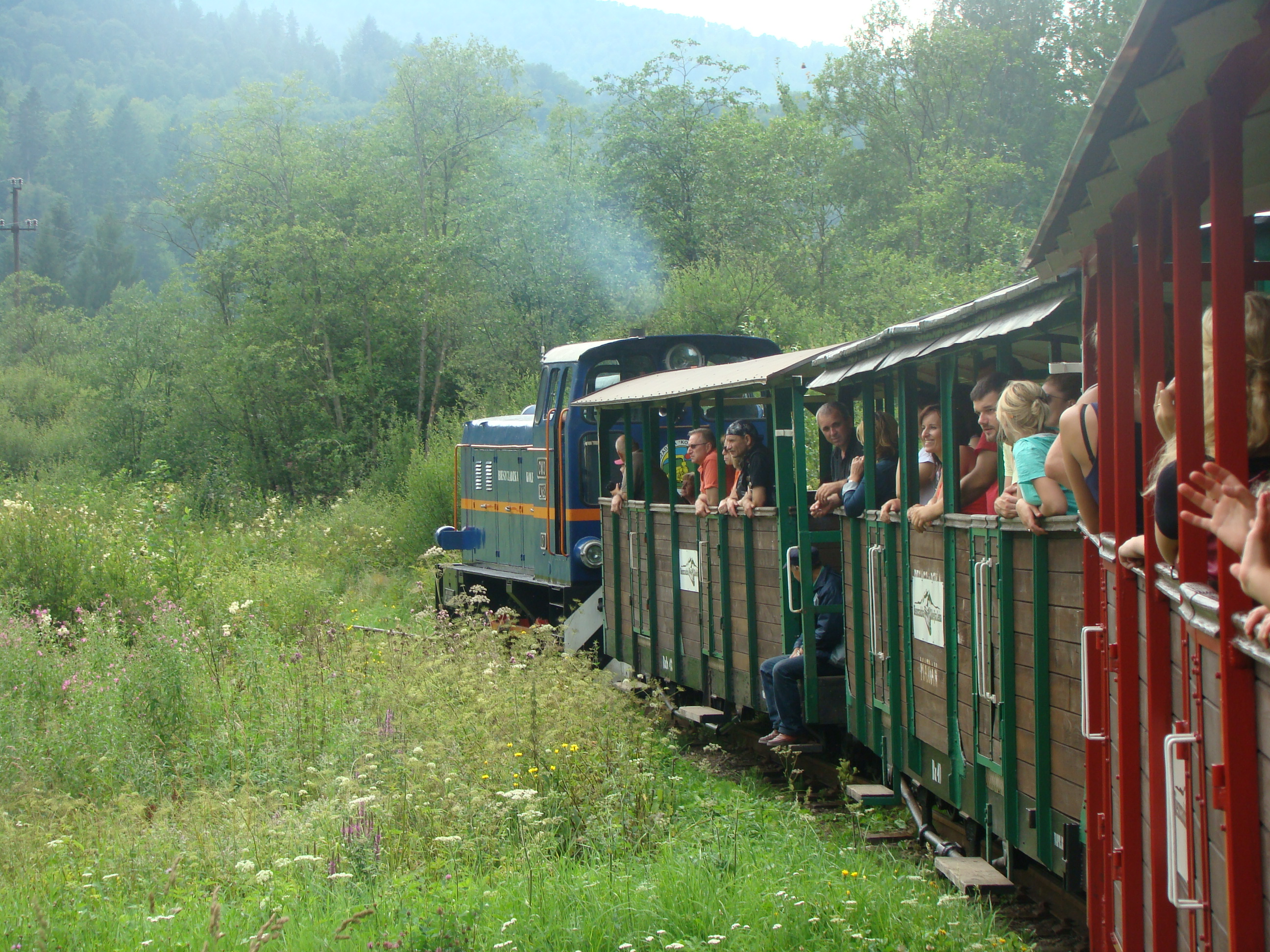 Bieszczady Forest Railway (Balnica heading)